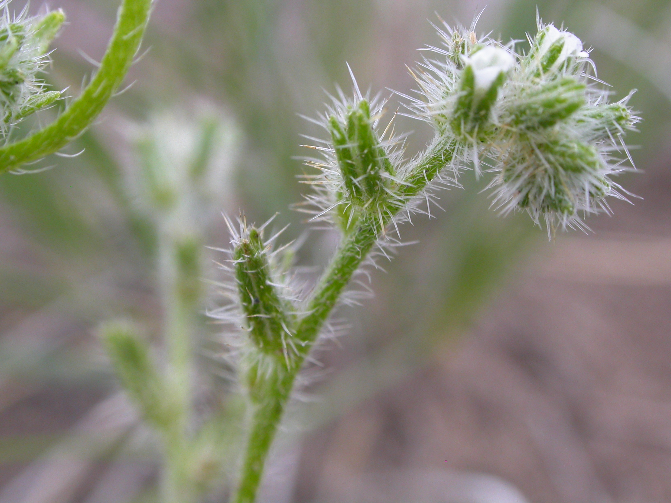 The coarse hair become more spreading and rigid with age.